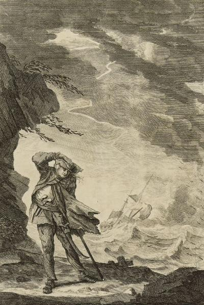 An image of Edward Lowe. Picture is from the National Maritime Museum in London.